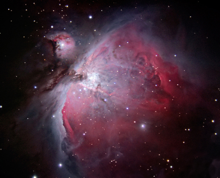 From Flickr: "It's a bit noisy and the color may not be quite right, but this is (as of January 11th, 2009) my best image of M42. The tracking has improved a bit since last year, but my method of polar alignment is still pretty primitive, so I couldn't go much deeper in terms of exposure. Regardless, I believe the color and processing are quite a bit more natural/accurate in comparison to my M42 shot from last year. (If anything is glaringly inaccurate or the colors are too garish on your screen, please point it out to me, as I processed this image on a laptop without a high level LCD.) The majority if the 56 exposures (ranging from 30-50 seconds at f/6.3 with a vintage 1970's Celestron C8) were taken from severely light polluted skies (and almost direct moonlight). Over the last several nights, I have taken close to 150 exposures of M42, and this morning I chose the best 56 of those exposures and stacked them in Deep Sky Stacker and then processed the resulting image in Photoshop. The exposures were taken with a new camera, a Pentax K200D , which so far has proven to be a major step up from my previous camera, a Pentax *ist DL. Pentax cameras are quite noisy in comparison to Canons and Nikons, but they preserve quite a bit of detail at higher ISO settings, due to a "hands-off" approach to noise reduction, which I like. So all in all, I'm very pleased with the new camera, so expect some great macros when spring rolls around. I am quite proud of this image, which is a result of several nights of lugging around heavy equipment, driving back and forth to the country, frozen fingers, and a lot of processing. (EDIT - Jan. 15th, 2009: I have re-uploaded the photo as I added a few longer exposures to the stack, which now consists 64 photos stacked ranging from 30 seconds at iso 800 to 55 seconds at iso 1600. So the photo is now (hopefully) more detailed, somewhat smoother, and possibly slightly brighter.)"